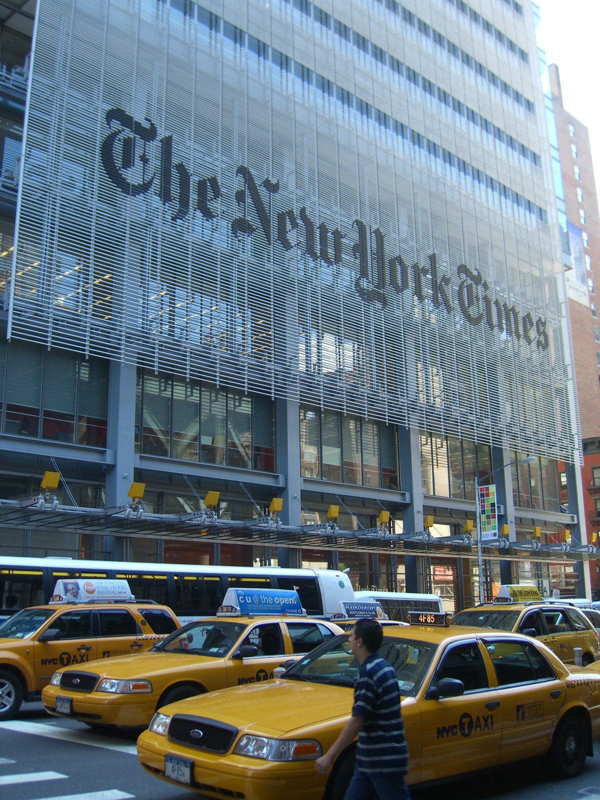 New York Times Tower in Manhattan.